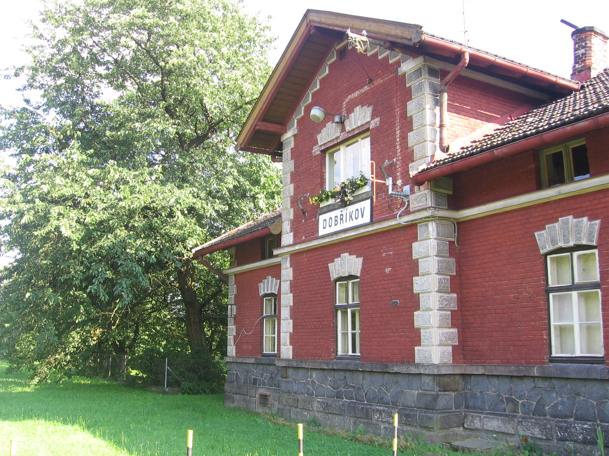 Dobříkov - railway station